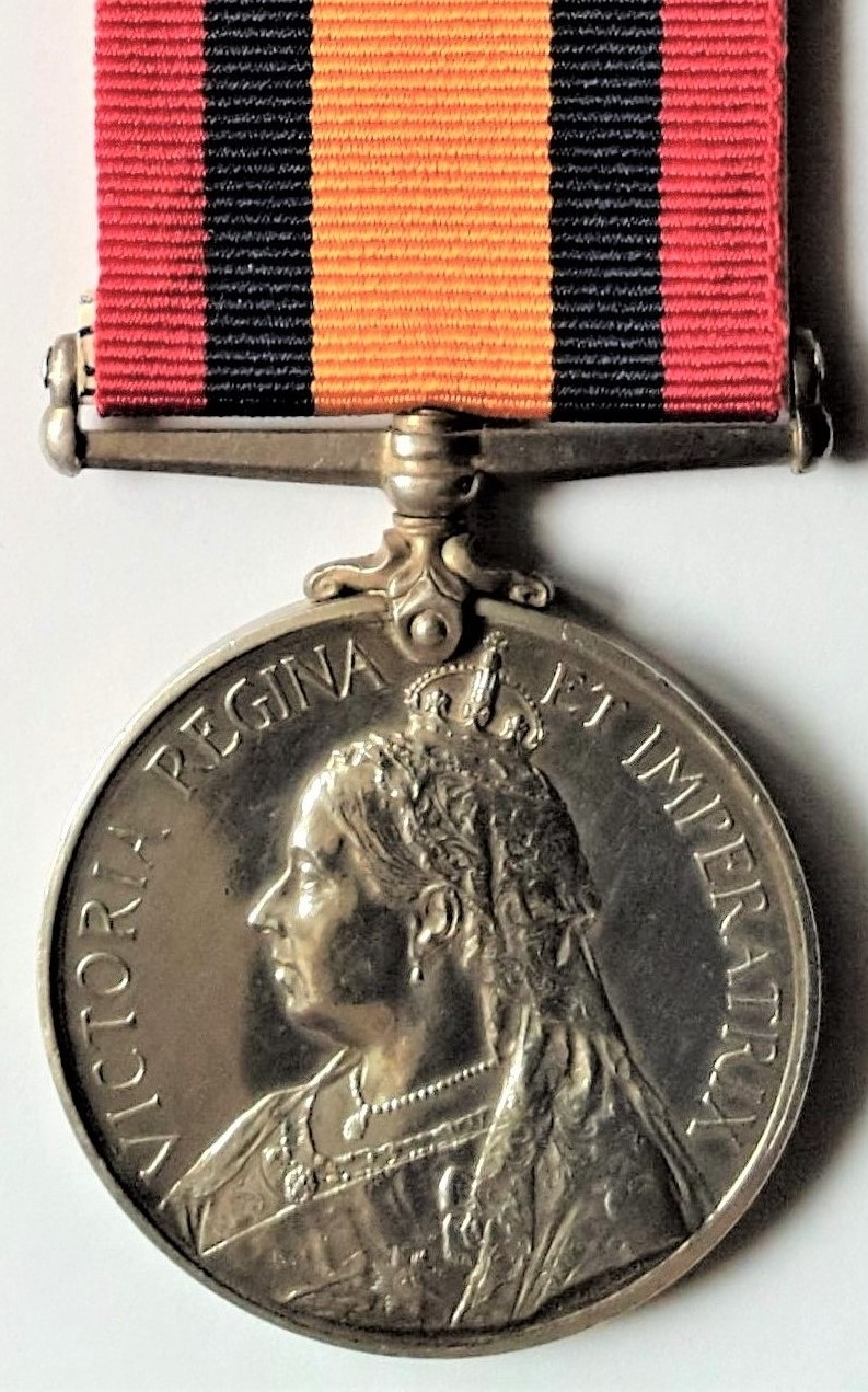 Queen's Mediterranean Medal. Second South African War, 1899-1902. Obverse